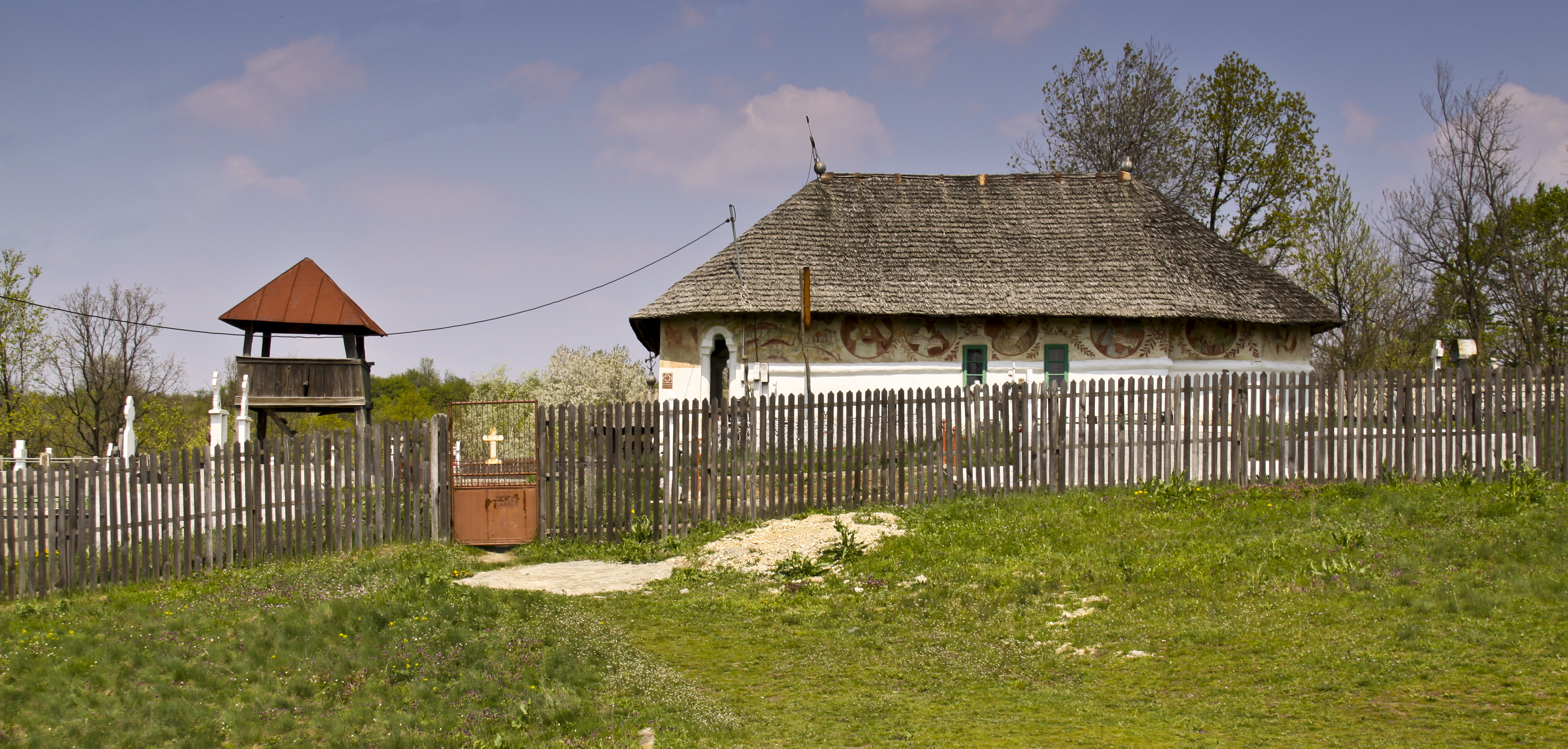 Chilia, Olt county, Romania: the parish church.